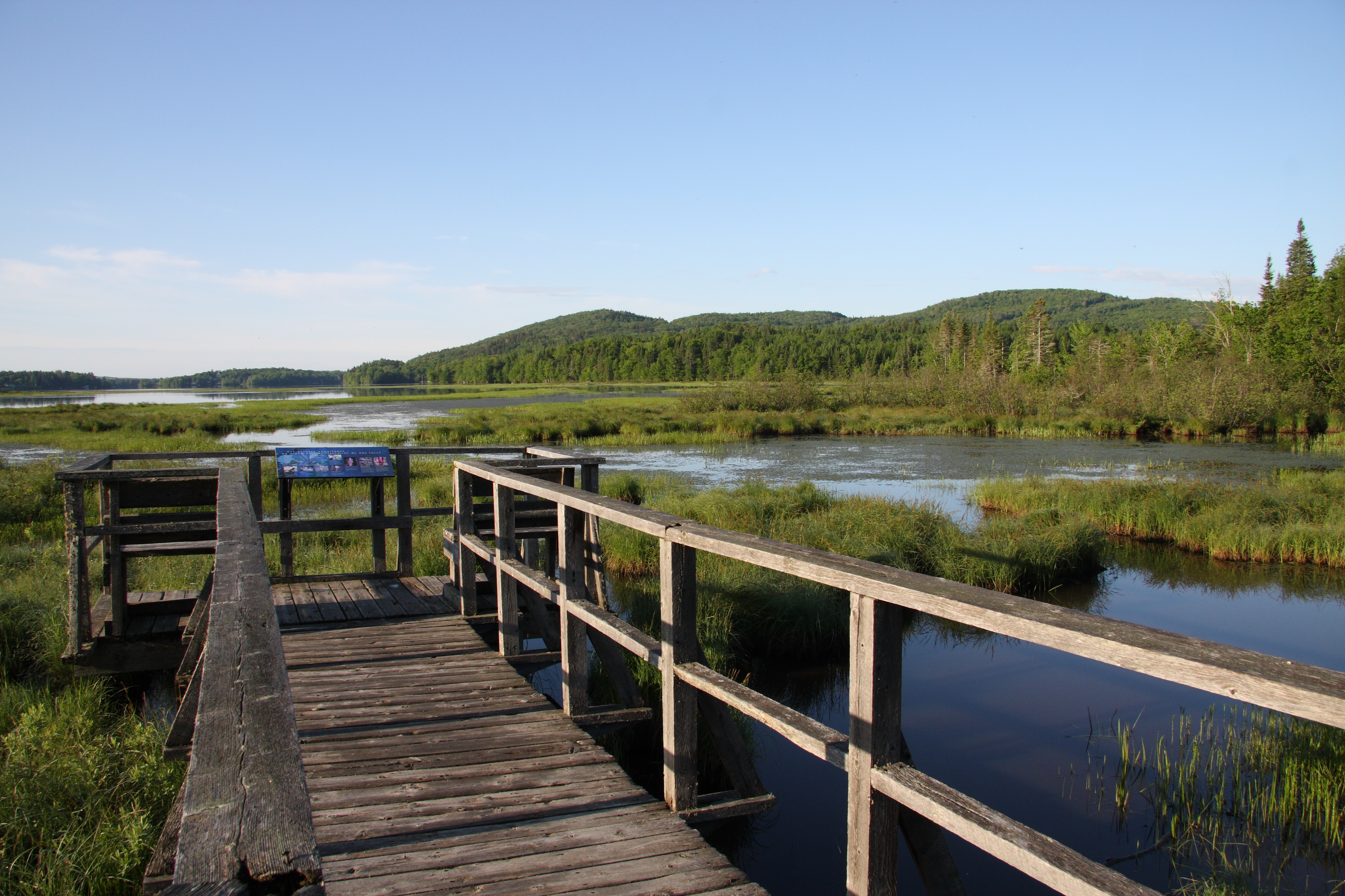 Observatory, Réserve naturelle des Marais-du-Nord, Quebec, Canada